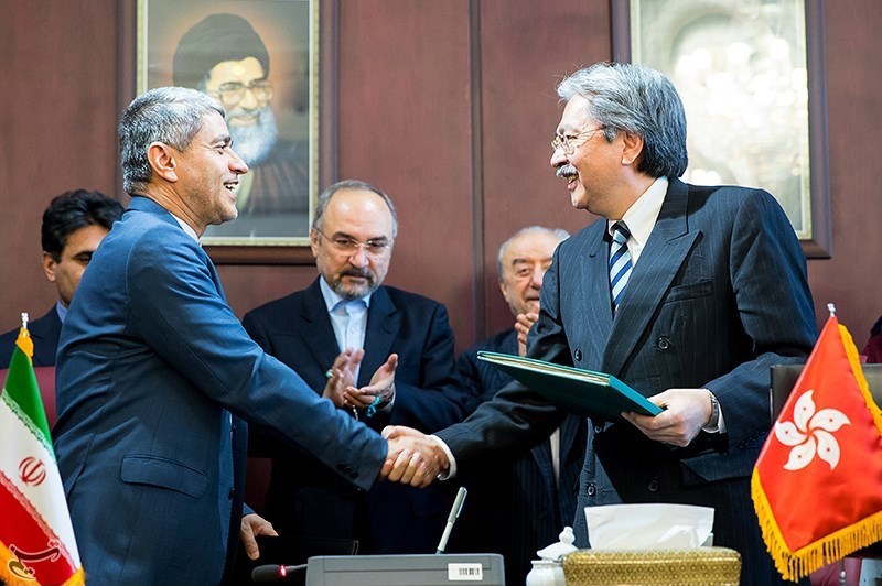 John Tsang and Ali Tayebnia at the Meeting of finance ministers of Iran and Hong Kong